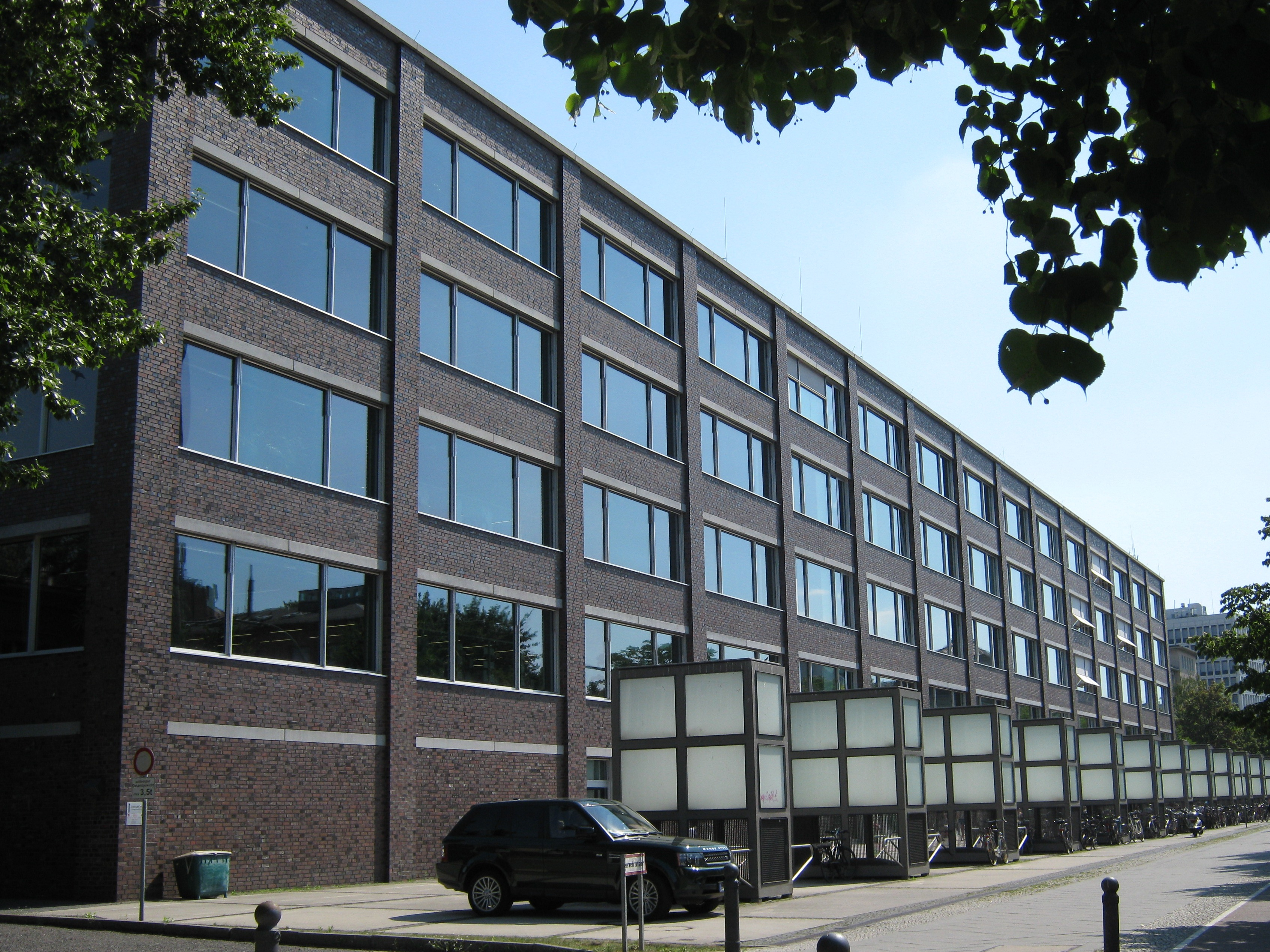 Exterior view of the university library of TU and UdK Berlin as seen from Fasanenstraße.